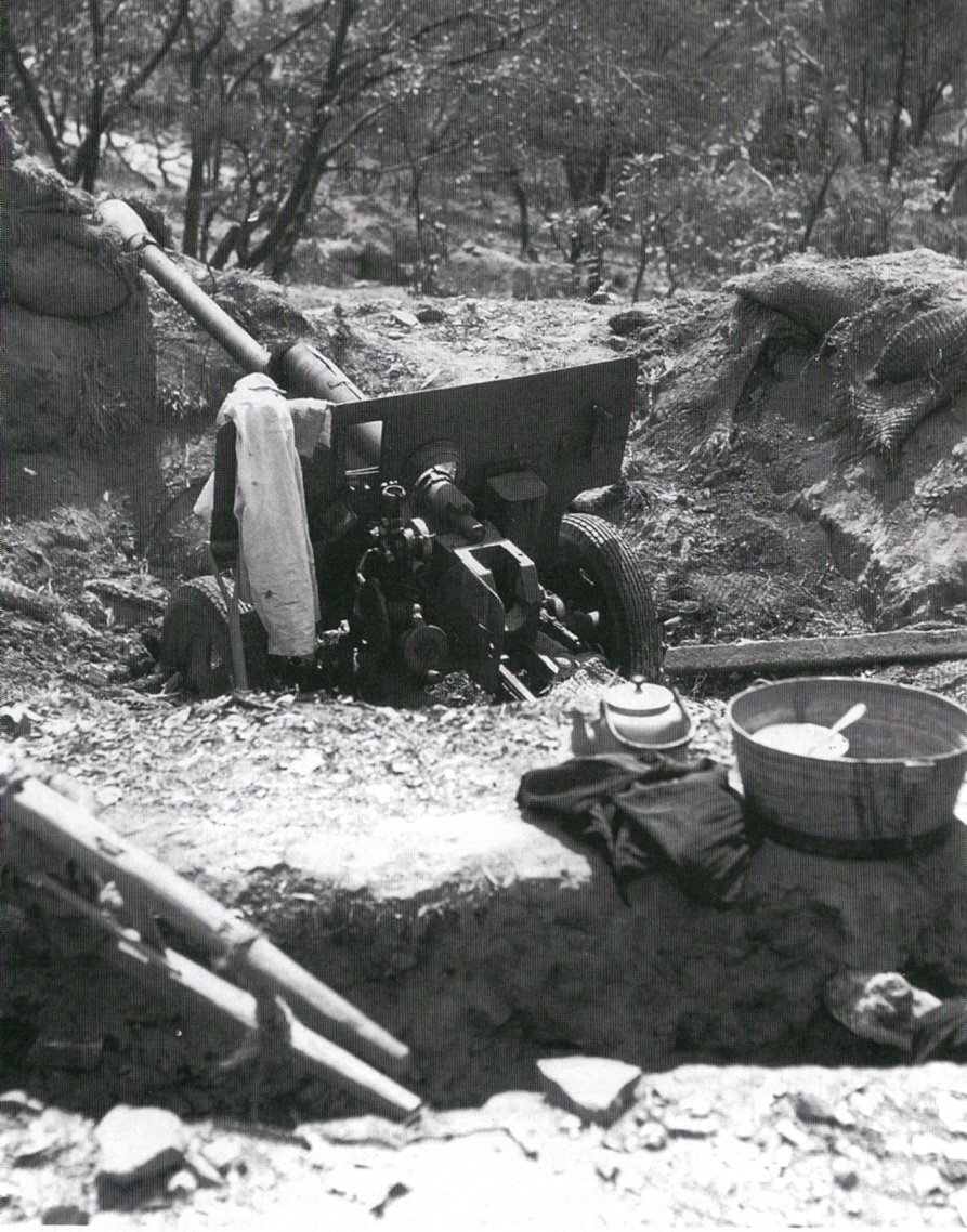 An abandoned Soviet-made North Korean 76 mm divisional gun M1942 (ZiS-3) captured by United Nations forces on a hill overlooking Incheon, South Korea, after the amphibious landings at Incheon during the Korean War.